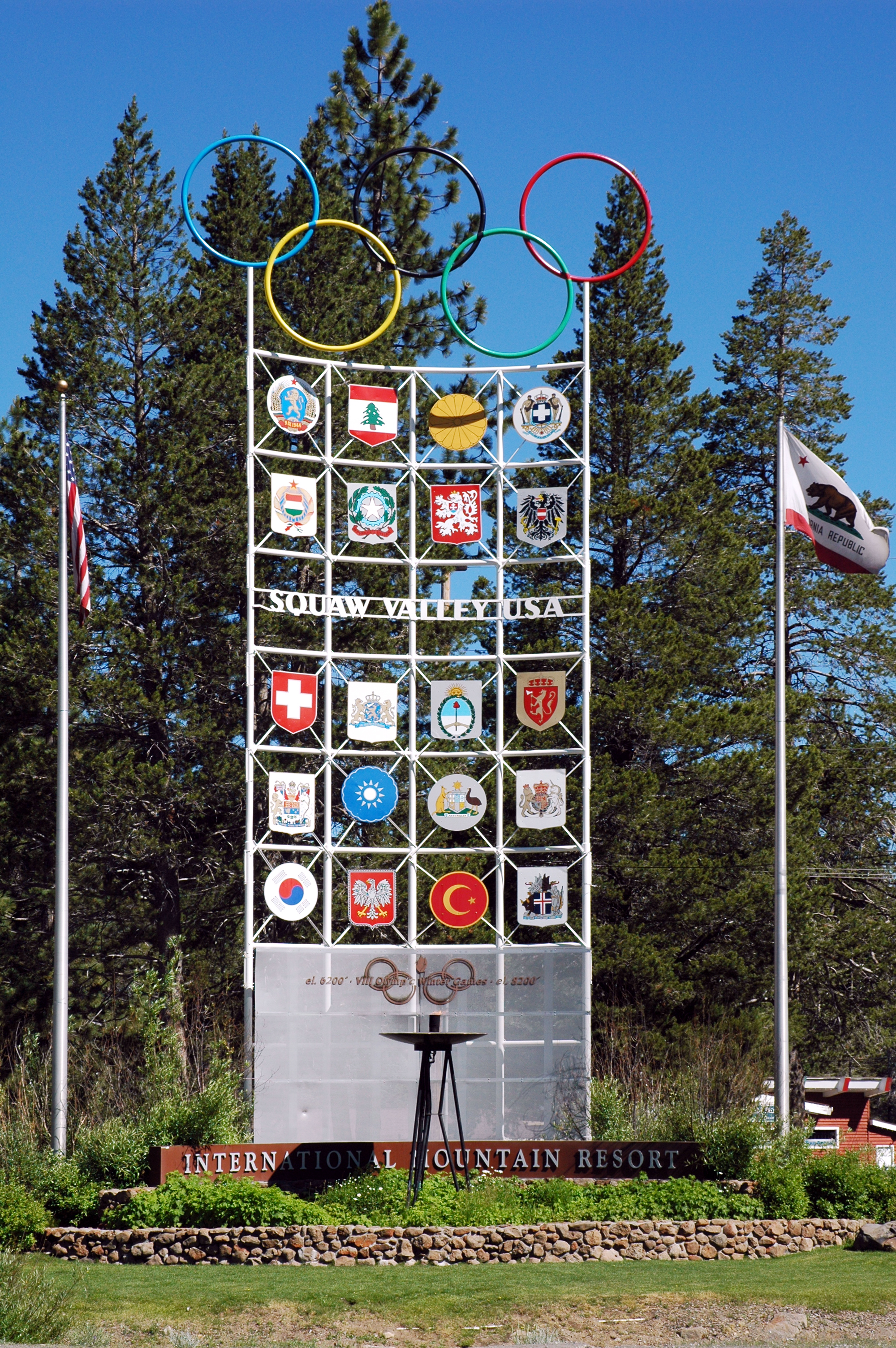 Entrance sign at Squaw Valley, California. The Olympic Flame is pictured in front of the sign, towards the bottom and in the center. The sign displays the national emblems or coats of arms of 20 of the 30 countries which participated in the 1960 winter Olympics: Bulgaria, Lebanon, Japan, Greece Hungary, Italy, Czechoslovakia, Austria Switzerland, Netherlands, Argentina, Norway Canada, China (Taiwan), Australia, UK South Korea, Poland, Turkey (apparently in wrong colors), Iceland